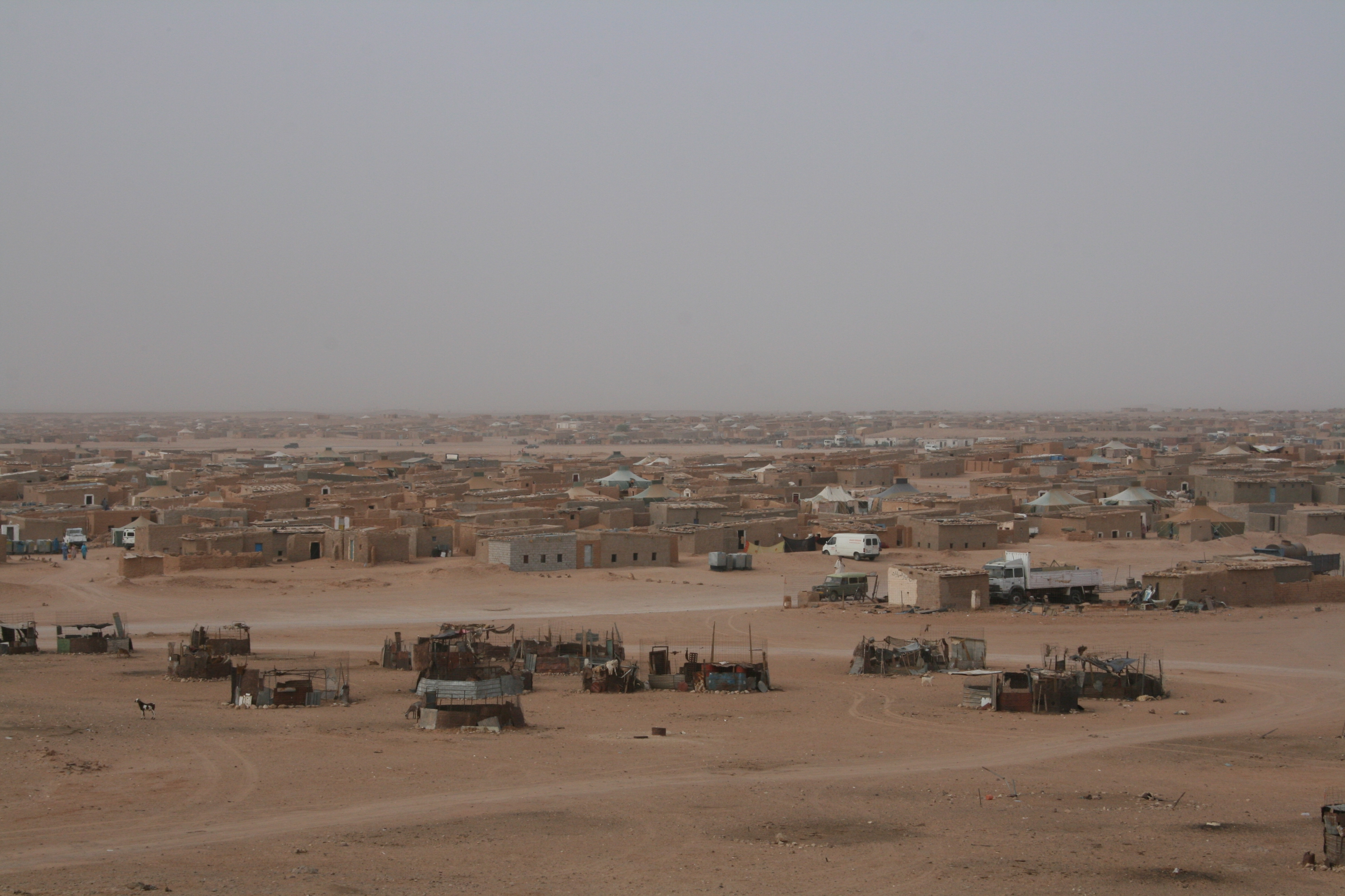 El Aaiún refugee camp in Tindouf. In the foreground you can see goat farms made from metal.